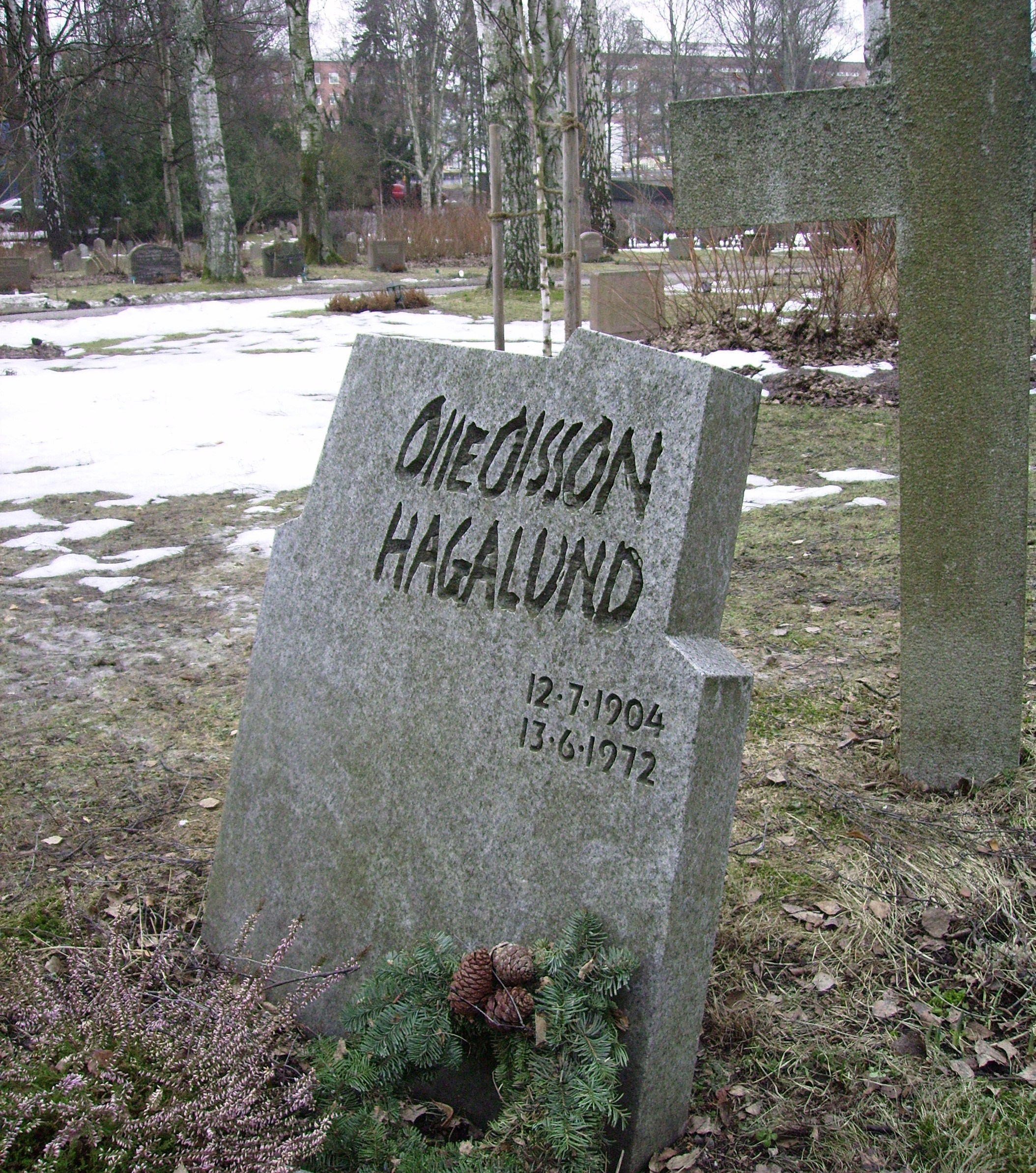 Picture of Olle Olsson Hagalund's grave at Solna kyrkogård